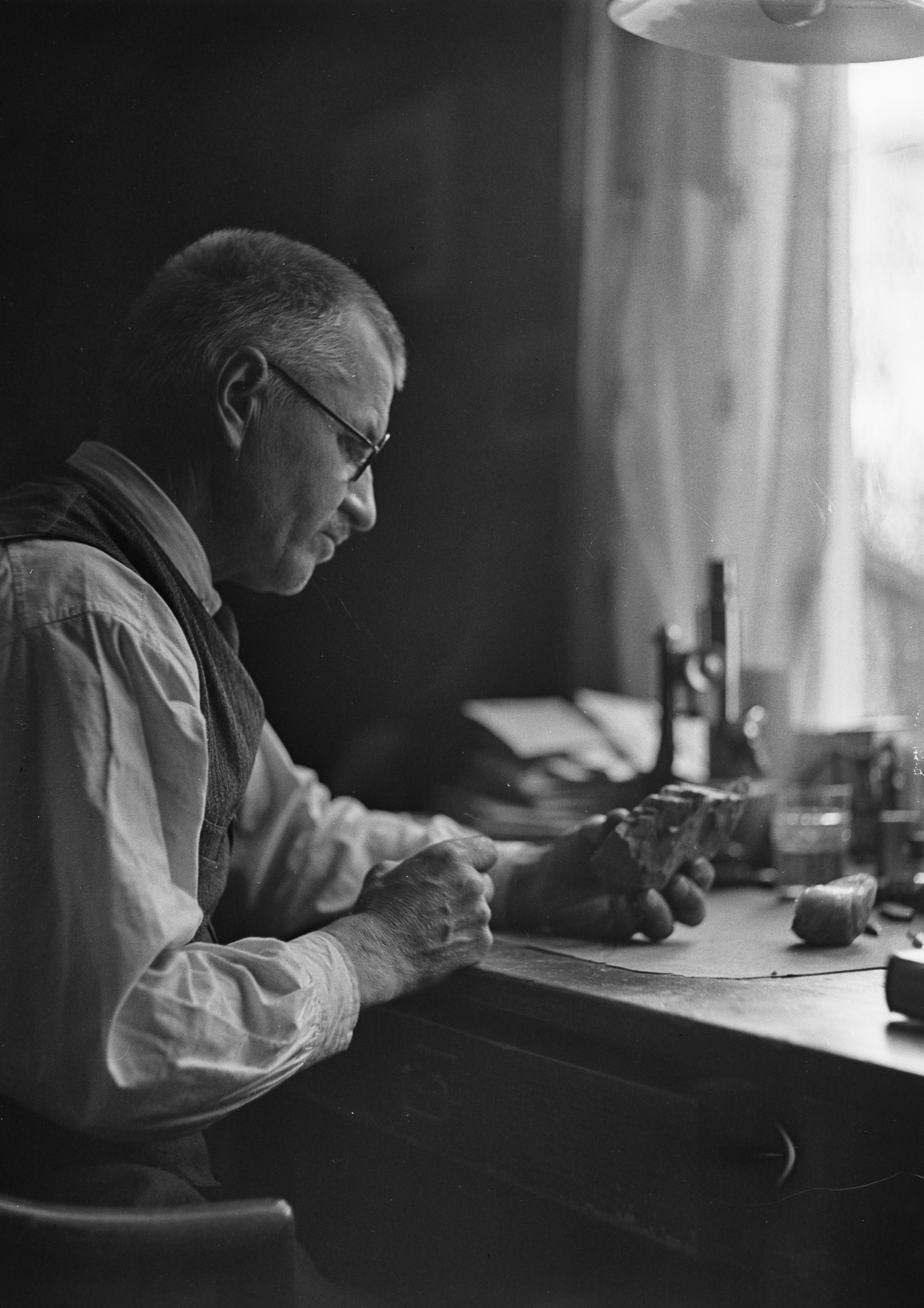 Photograph of the Finnish biologist Veli Räsänen (1888–1953).